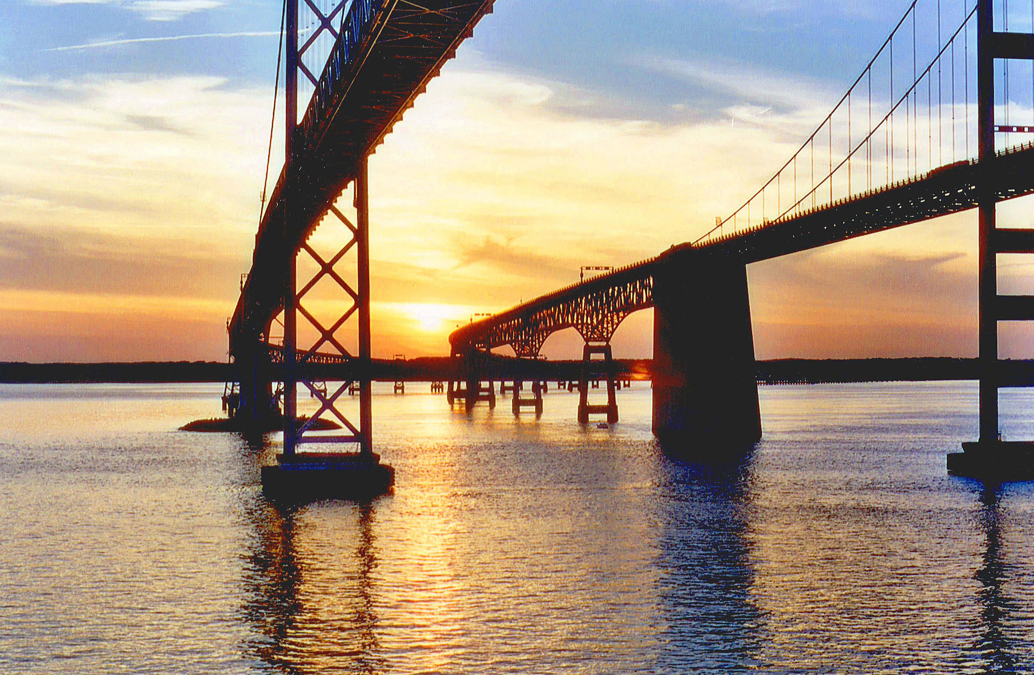 Chesapeake Bay Bridge (Maryland), viewed from cruise ship passing beneath. Image is from 35 mm film camera. Scanned in from print. Uploader performed misc. digital correction and manual despeckling.